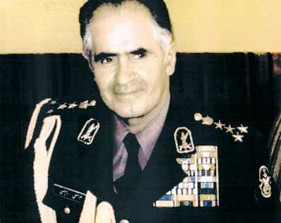 General Gholam-Ali Oveissi, Four Star General of the Imperial Iranian Army